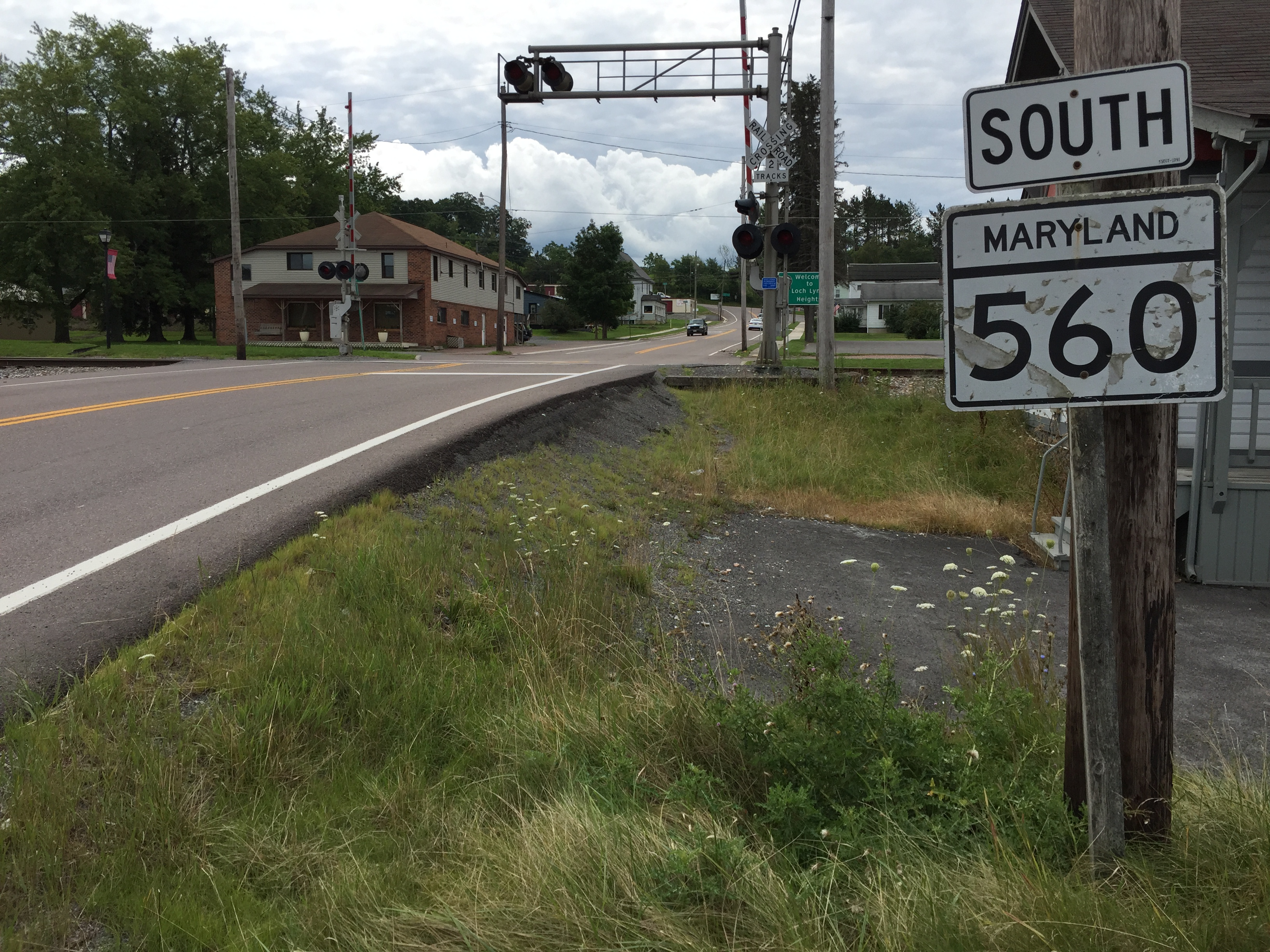 View south along Maryland State Route 560 (Gorman Street) at Maryland State Route 135 (Maryland Highway) in Mountain Lake Park, Garrett County, Maryland